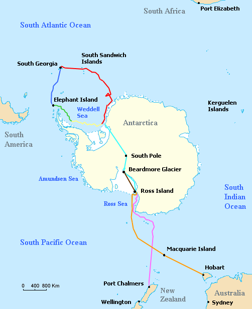 Map of the routes of the ships Endurance and Aurora, the support team route, and the planned trans-Antarctic route of the British Imperial Trans-Antarctic Expedition led by Ernest Shackleton in 1914–15. Voyage of Endurance Drift of Endurance in pack ice Sea ice drift after Endurance sinks Voyage of the lifeboat James Caird Planned trans-Antarctic route Voyage of Aurora to Antarctica Retreat of Aurora Supply depot route